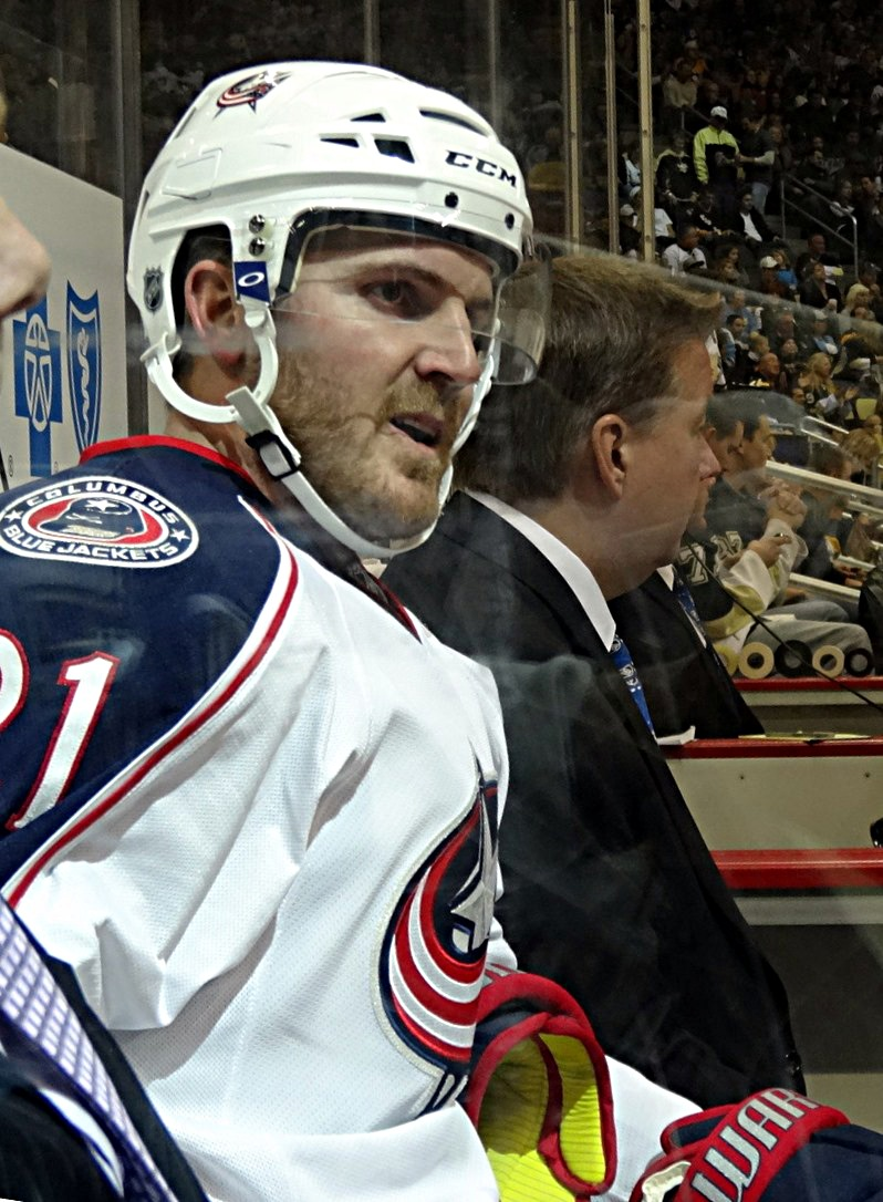 Columbus Blue Jackets defenseman James Wisniewski in the penalty box during a game against the Pittsburgh Penguins, November 1, 2013, at Consol Energy Center in Pittsburgh, PA.